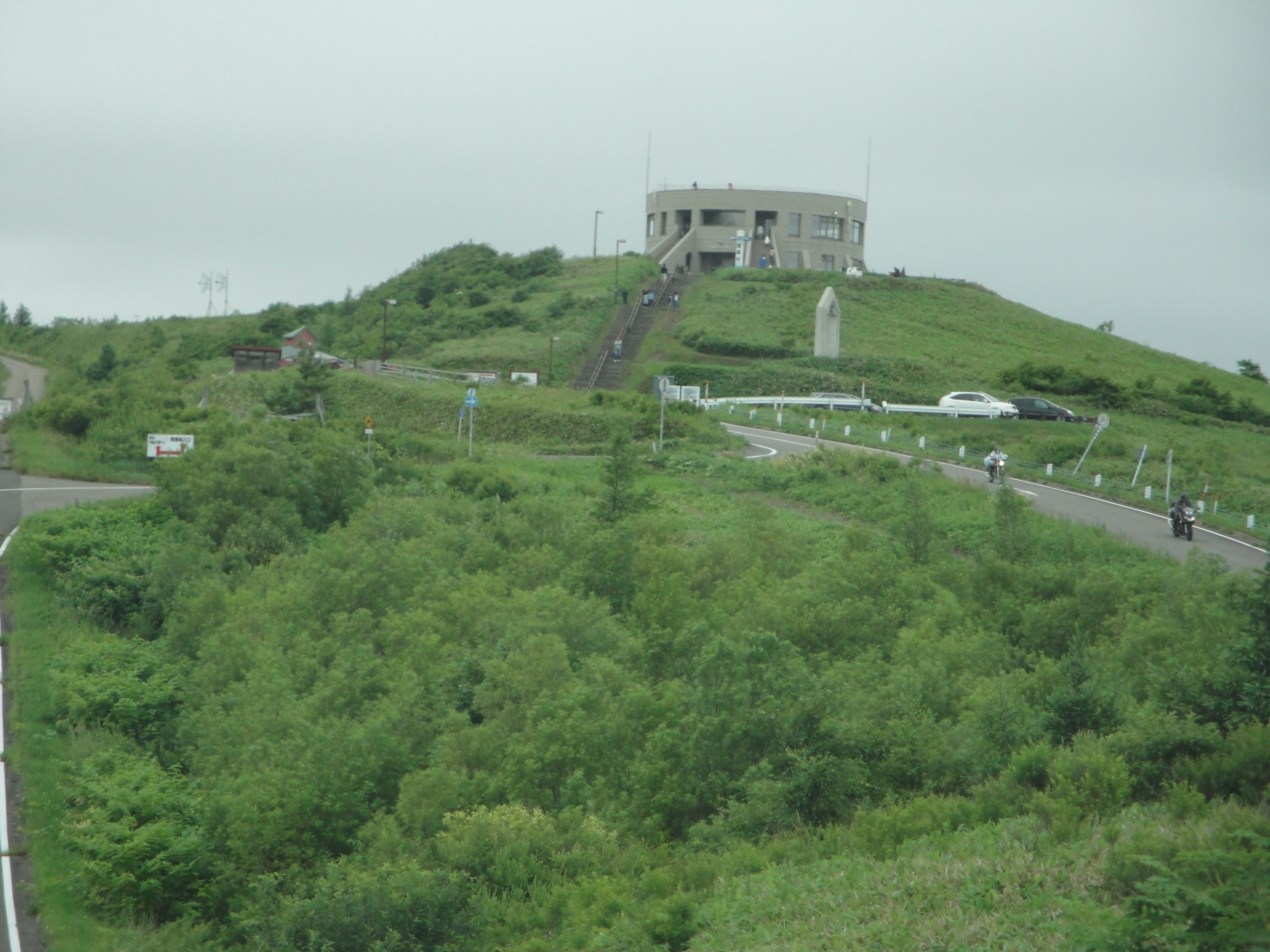 Kaiyodai